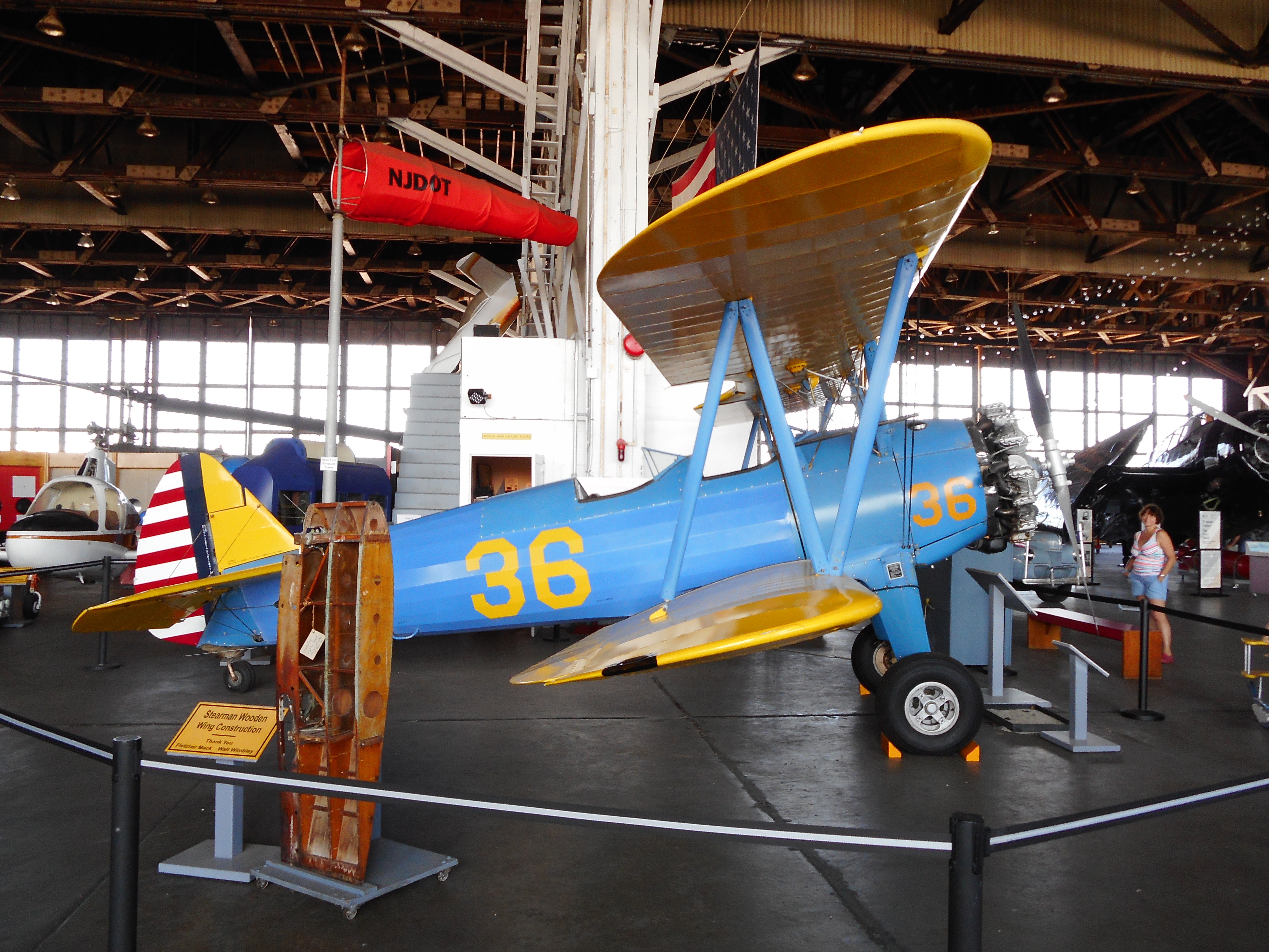 Stearman biplane trainer at Naval Air Station Wildwood museum in Rio Grande, New Jersey